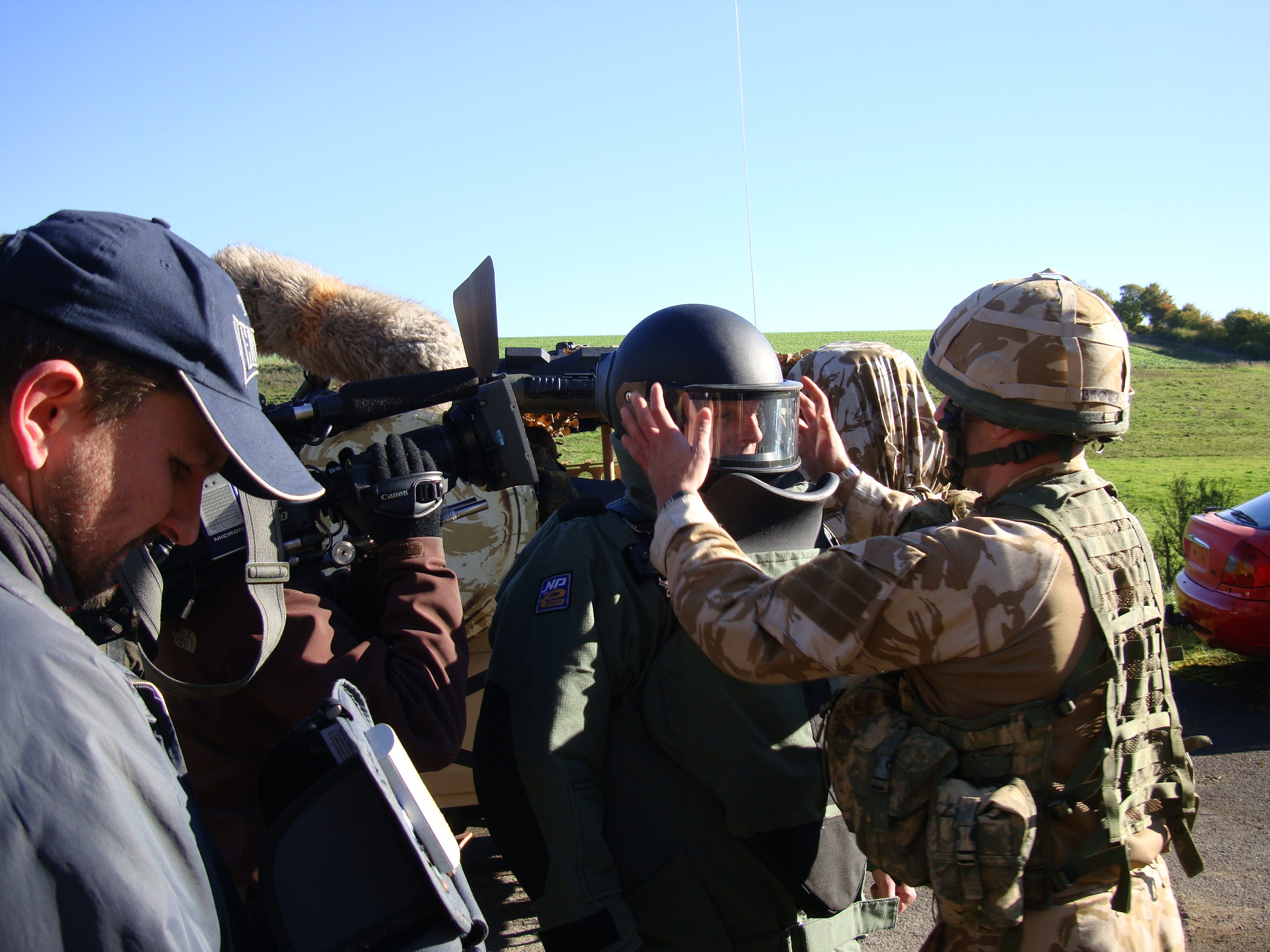 Chris Hunter filming Bombhunters with The History Channel